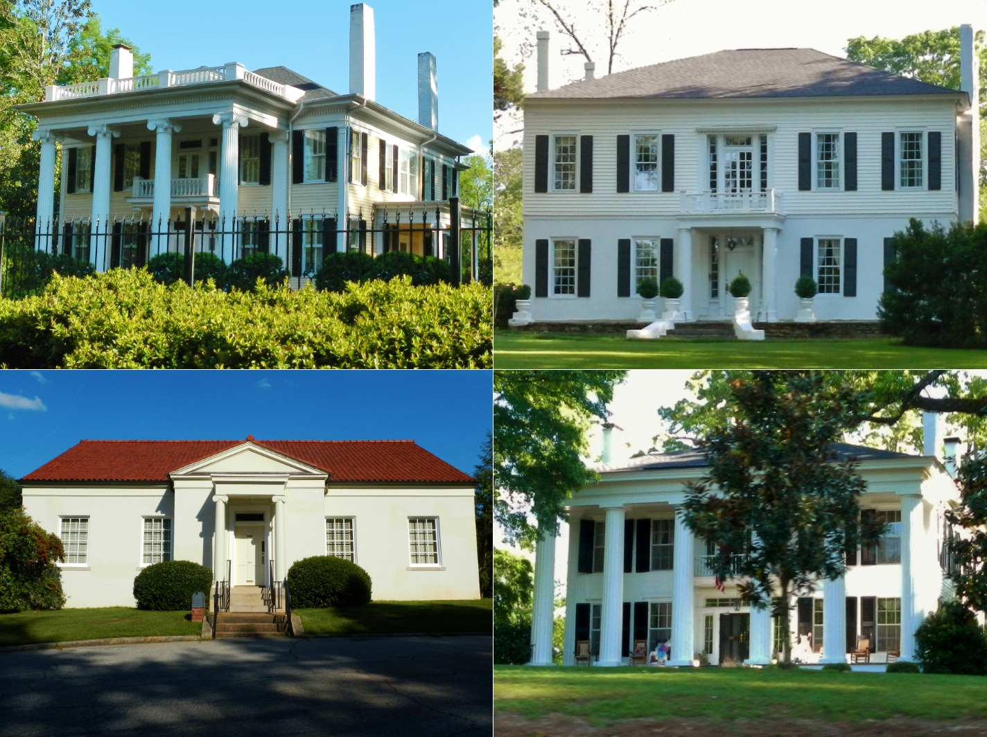 This is a photo collage of the Vernon Road Historic District in LaGrange, Georgia.